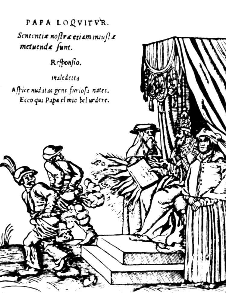 The Papal Belvedere by Lucas Cranach the Elder in the 1545 publication of Luther's Depiction of the Papacy. It features a papal bull complete with fire and brimstone, fresh from the hand of Pope Paul III meeting German peasants with farts, fresh from their "belvedere". [Belvedere refers to a building in the Vatican, but also means "beautiful view".] Roughly read (with sure mistakes-please make it correct): "PAPA LOQVITUR. Sententiae nostrae etiam iniustae metuendae sunt. Responsio. Maledetta Aspice nudatas gens furiosa nates. Ecco qui Papa el mio belvedere." Complete translation (roughly--the Latin is unclear and mixed with Italian): The Pope speaks: Our sentences are to be feared, even if unjust. Response: Be damned! Behold, o furious race, our bared buttocks. Here, Pope, is my 'belvedere'